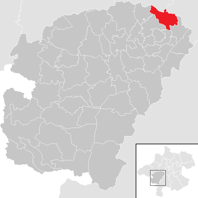 District Vöcklabruck